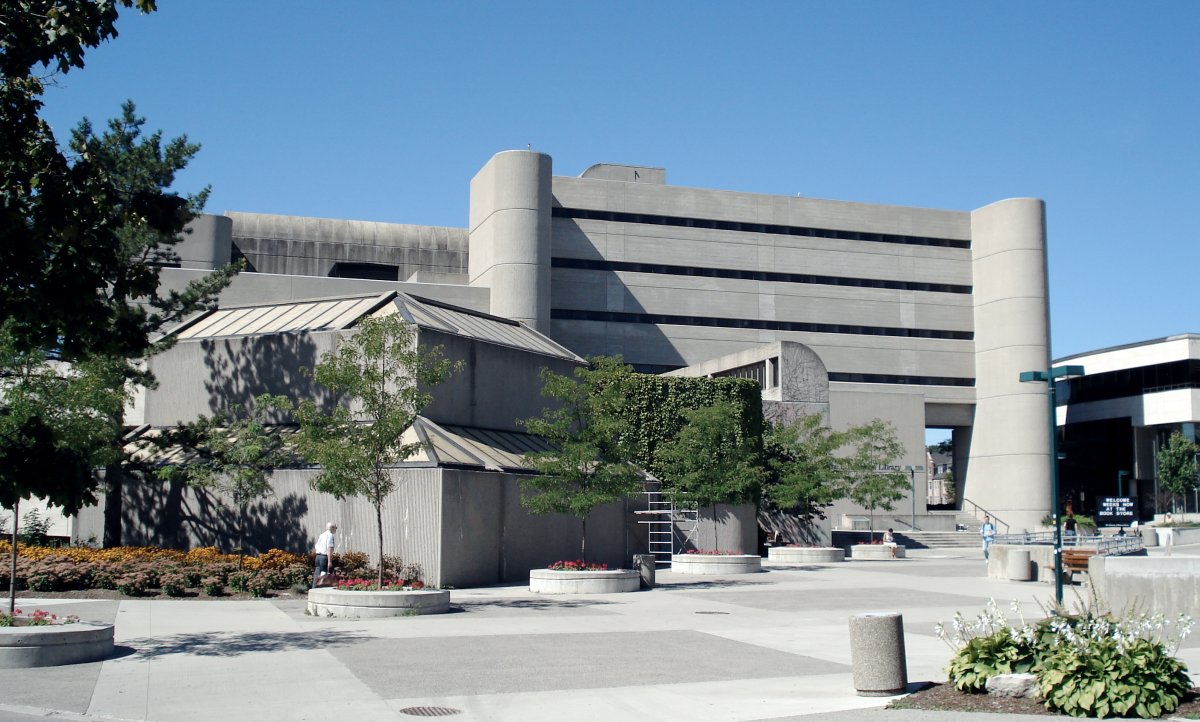 D. B. Weldon Library on the campus of University of Western Ontario. Photo taken on August 21, 2006. Source: Photo by me, User:Balcer.